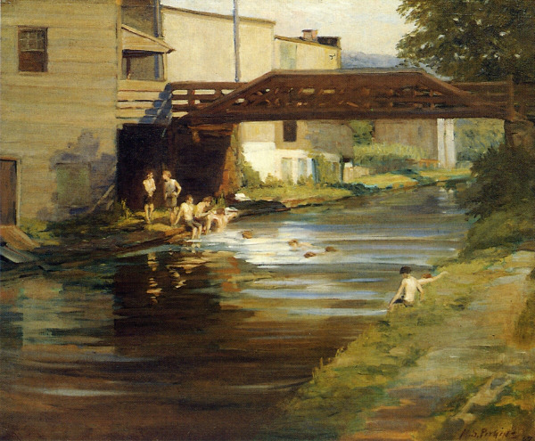 A painting by artist Mary Smyth Perkins Taylor dated 1909, oil on canvas